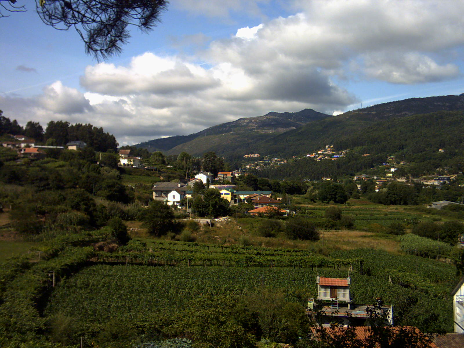 View of Mos, Galicia, Spain.